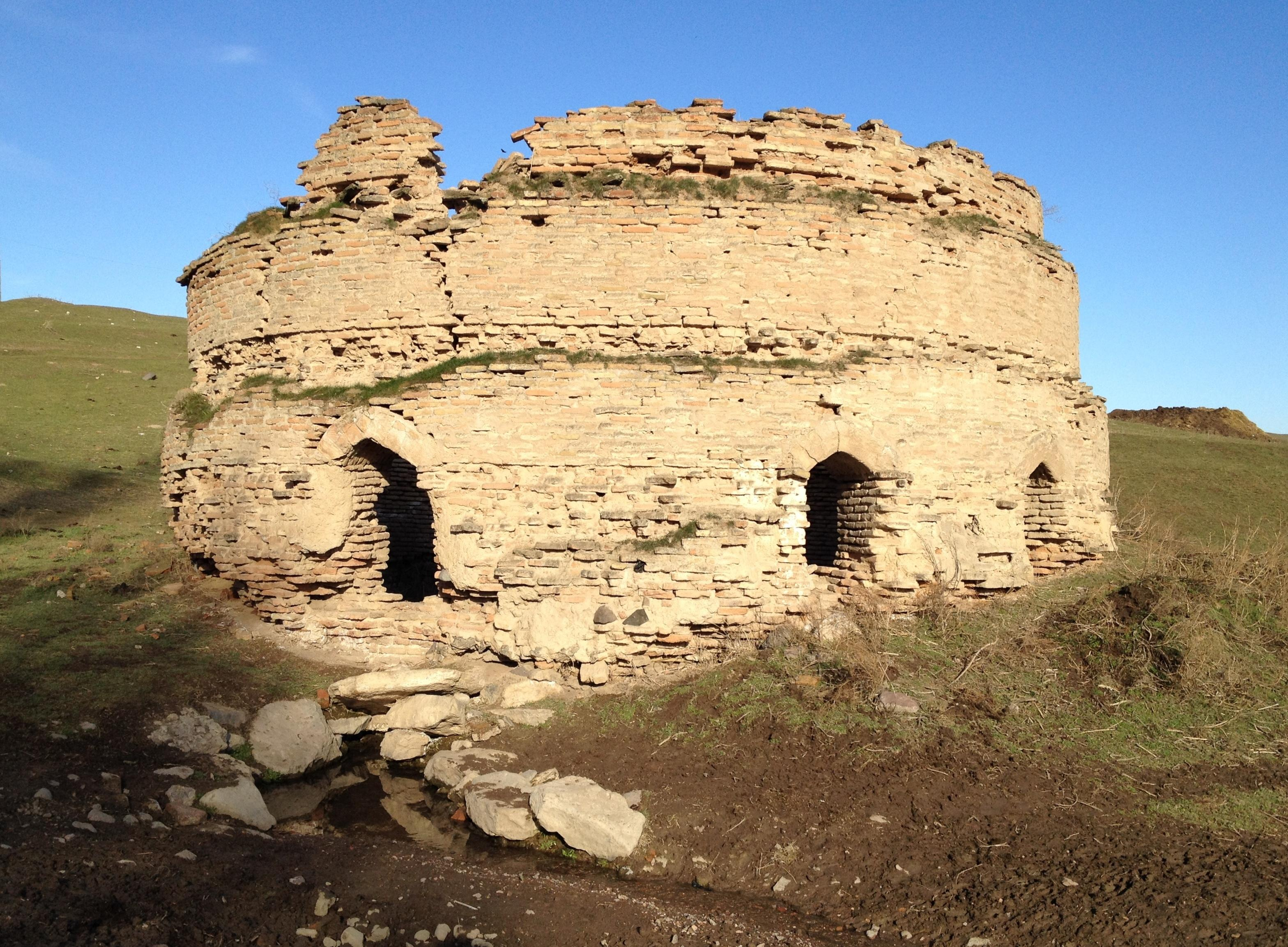 Ruins of Qaynar ab anbar (Qaynargumbaz), Akhangaran district